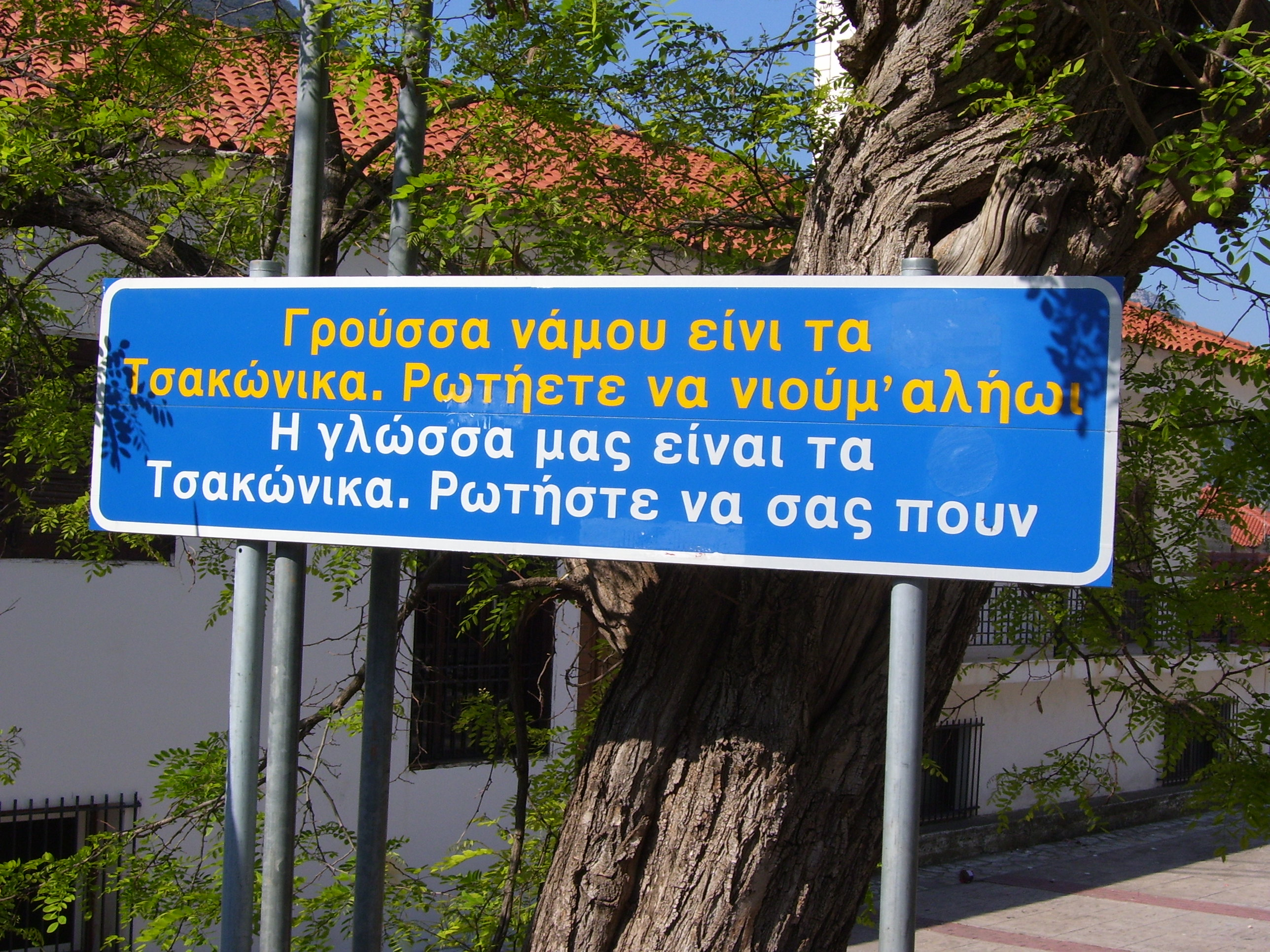 "Our language is Tsakonian. Ask people to speak it with you". A bilingual (Tsakonian and Standard Greek) sign in the towns of Leonidio and Tyros Greece.